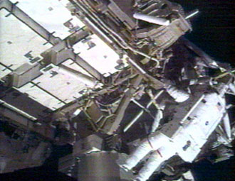 Space Shuttle Discovery - The astronauts of STS-116 carry out their mission's first EVA in order to attach the P5 truss segment to the ISS.